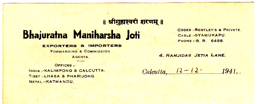 Letterhead of the firm Bhajuratna Maniharsha Joti dated 1941.